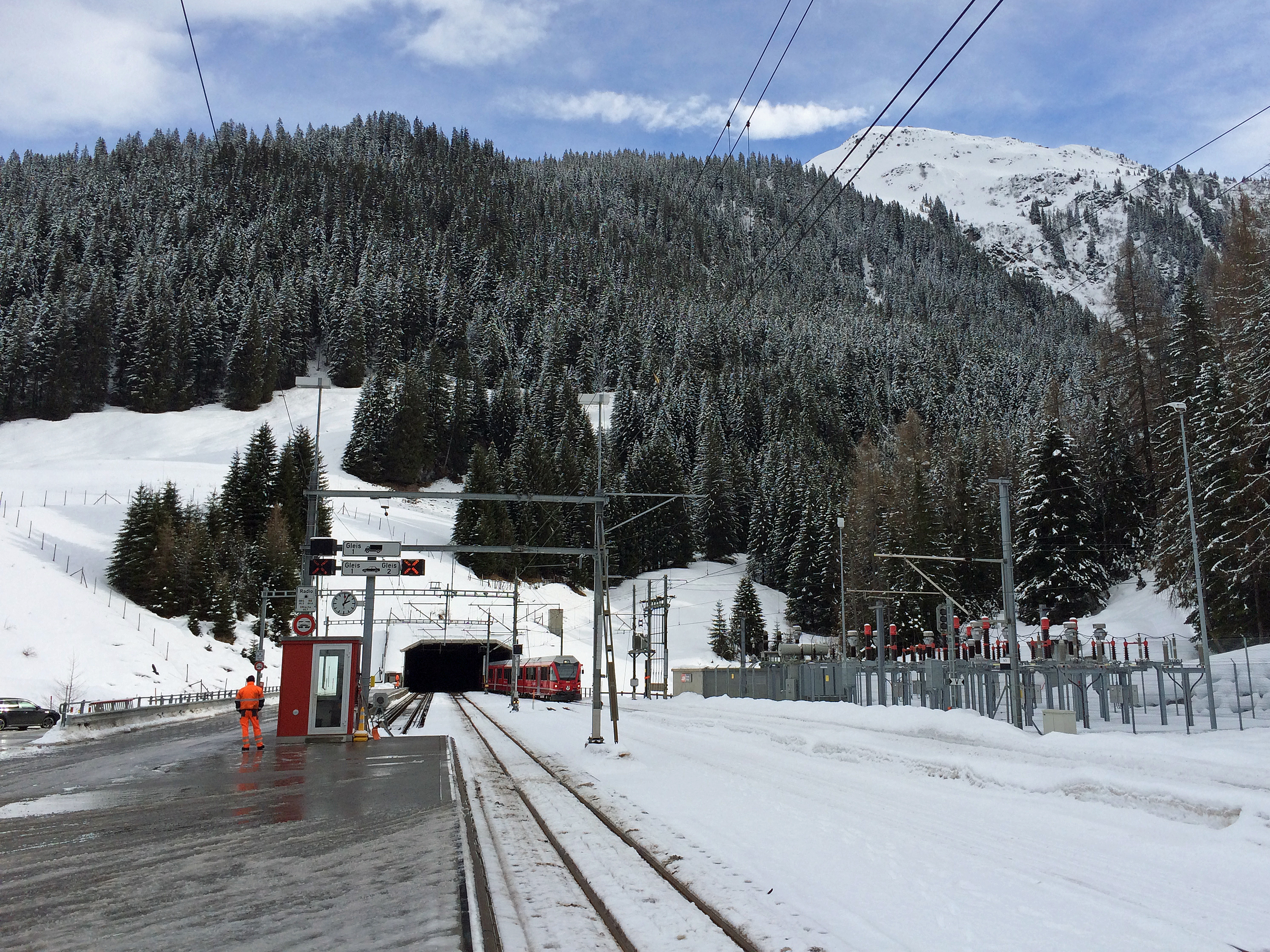 A train is leaving Vereina Tunnel in Selfranga, Klosters, Switzerland